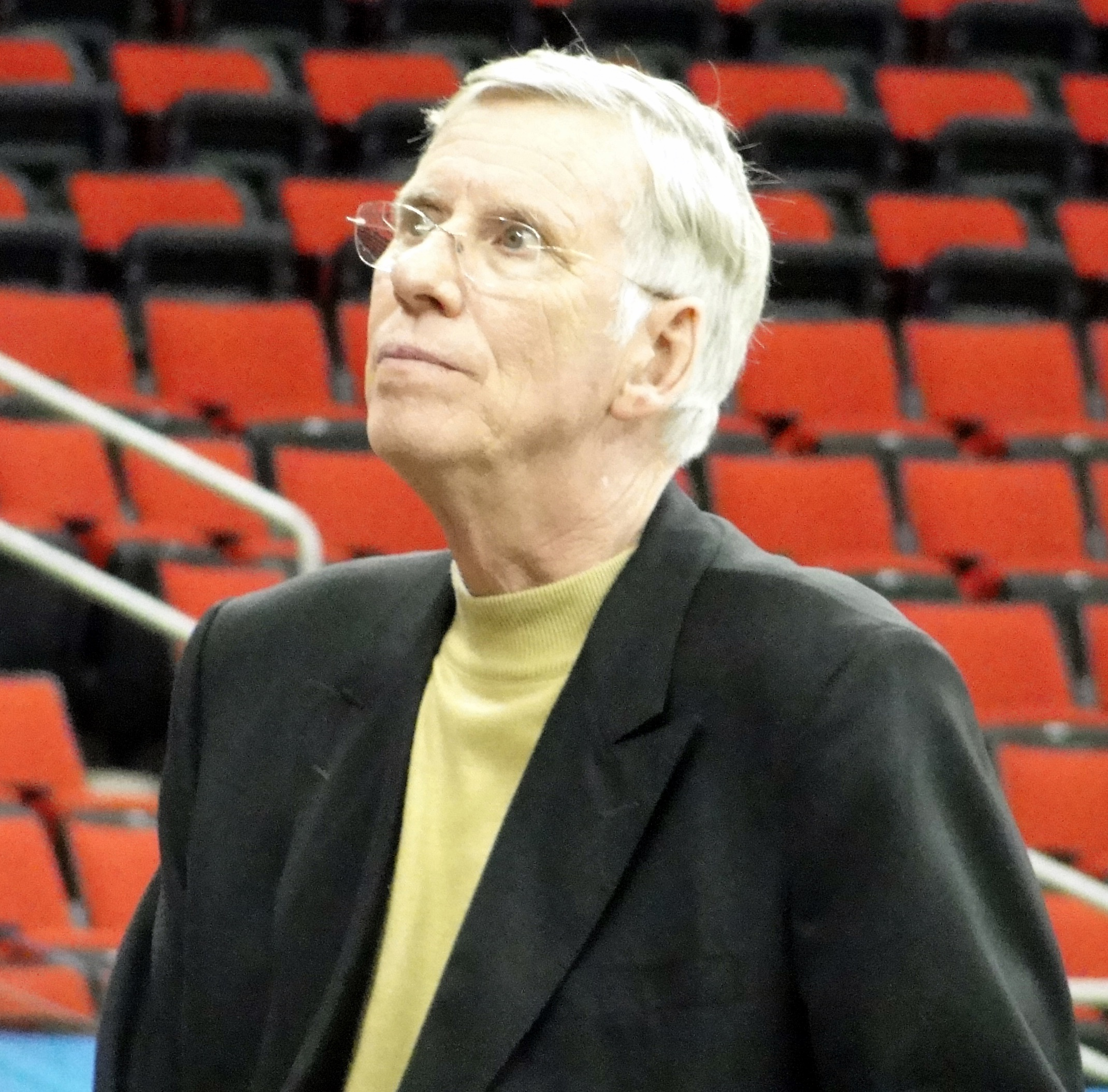 Pittsburgh Penguins radio broadcaster Mike Lange takes questions from fans during a Q&A session before the Pens morning skate December 3, 2011 at RBC Center in Raleigh, NC.